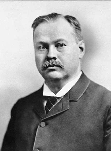 Louis-Honoré Fréchette, President of the Royal Society of Canada in 1900